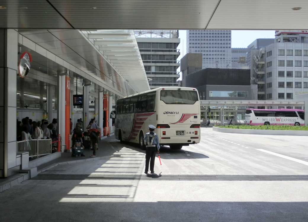 The view of the Shinjuku Expressway Bus Terminal from the ticketing counter on the 4th floor of Busta Shinjuku.